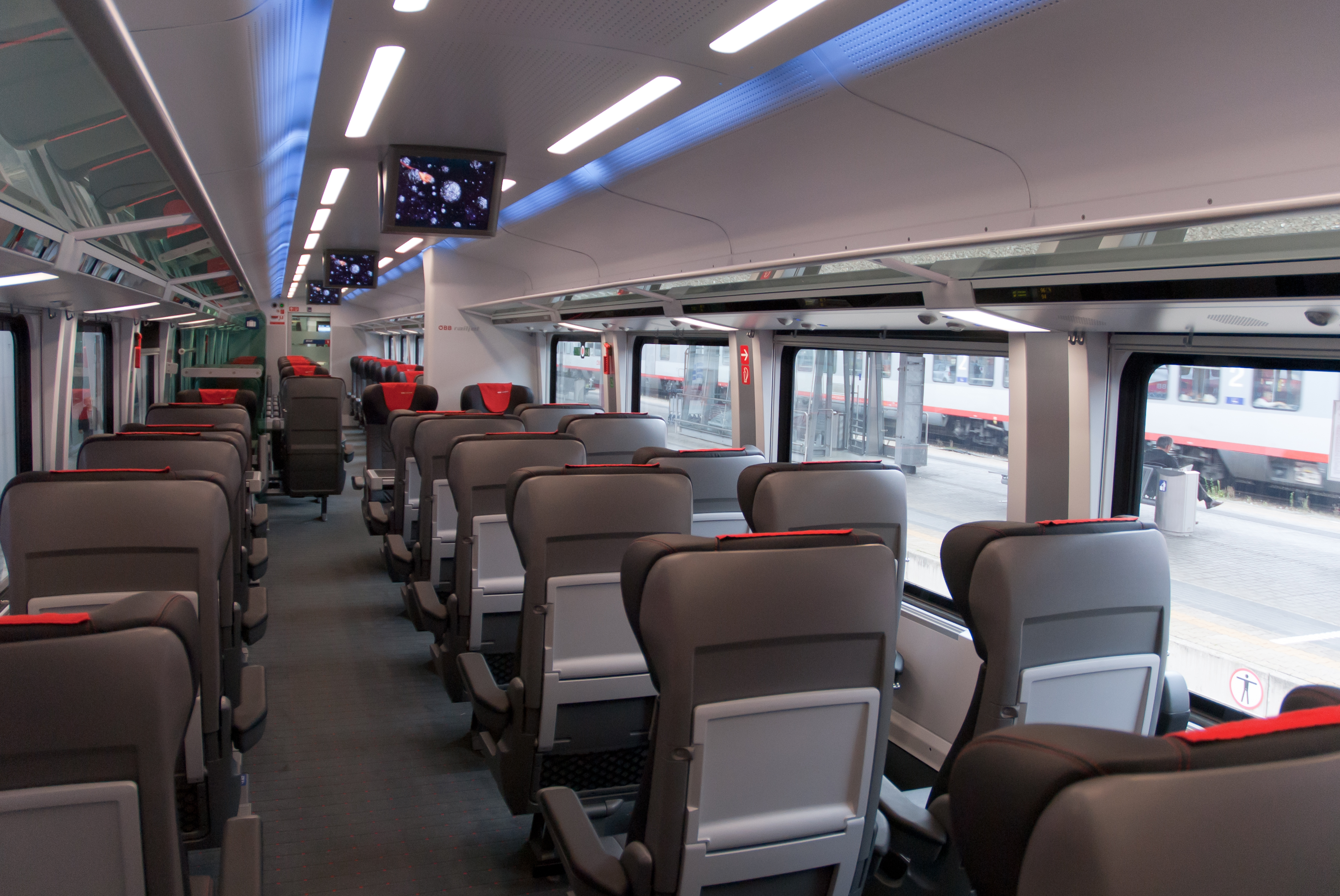 Railjet, first class, interior (Innsbruck main station) A-ÖBB 73 81 19 90 649-8 Ampz